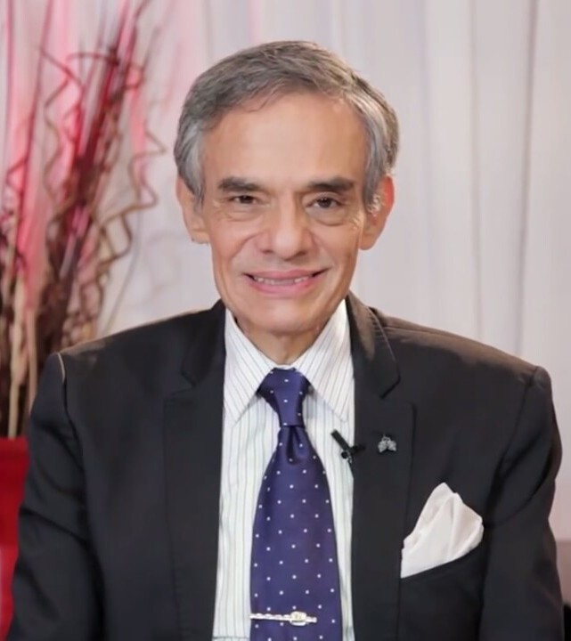 Mexican singer and actor José José in 2017